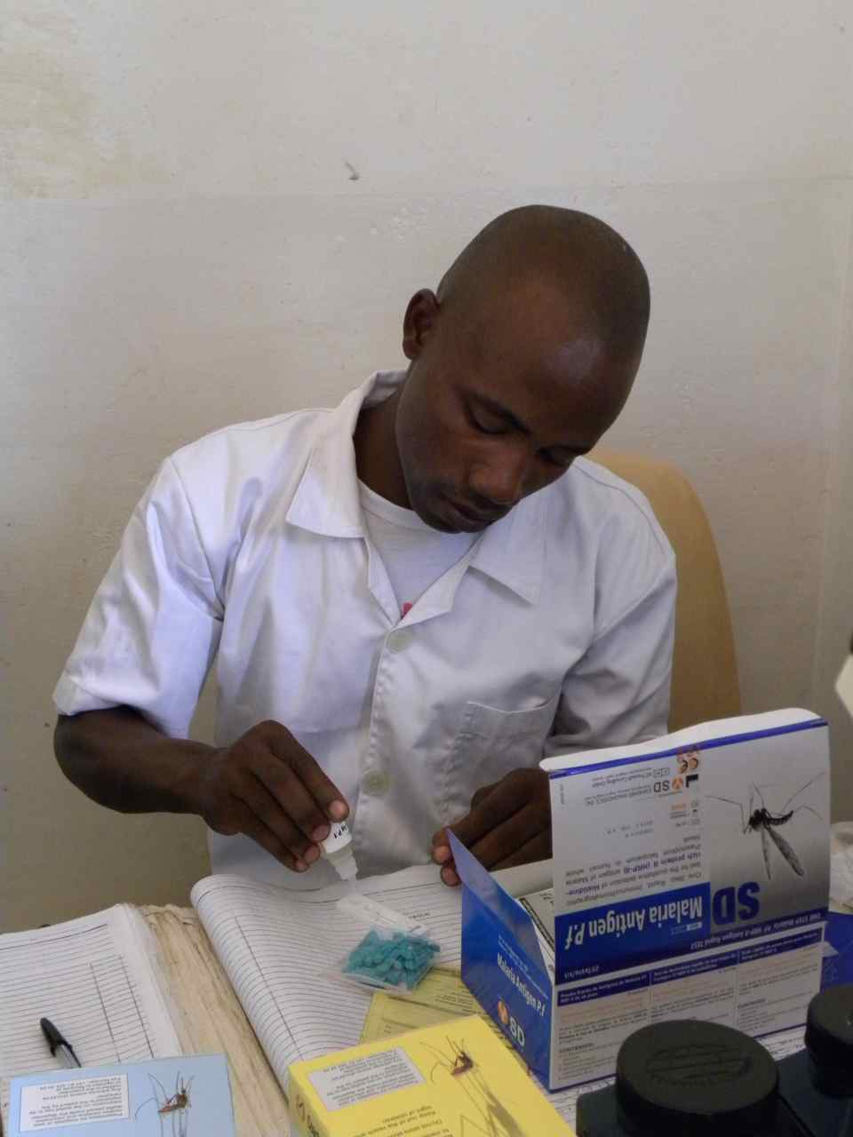 Preparing vaccines. From the GiveWell visit to NGO Village Reach in Pemba, Mozambique and surrounding areas. February 2010. More information.